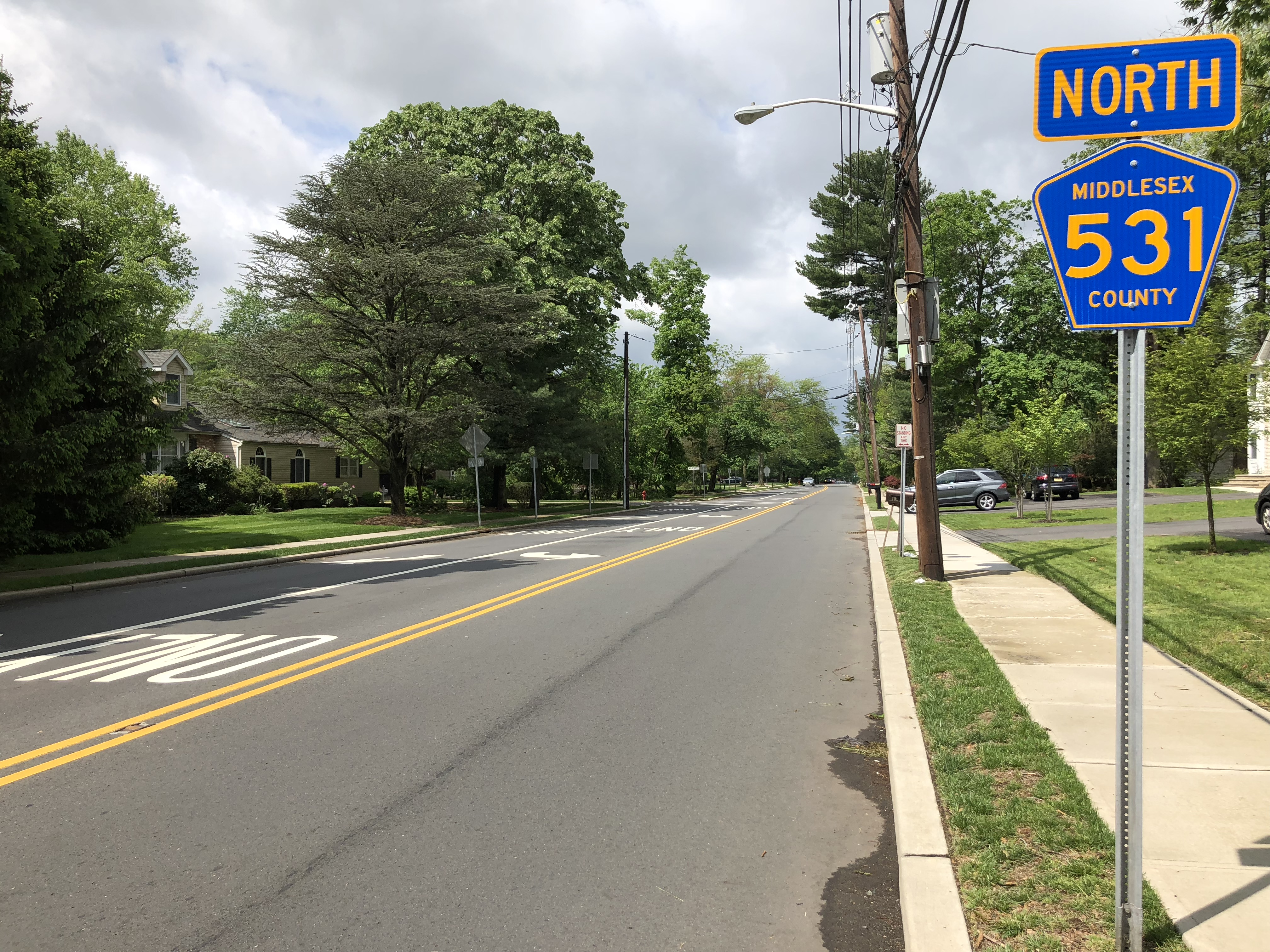 View north along Middlesex County Route 531 (Park Avenue) at Plainfield Road (Middlesex County Route 661) in Edison Township, Middlesex County, New Jersey